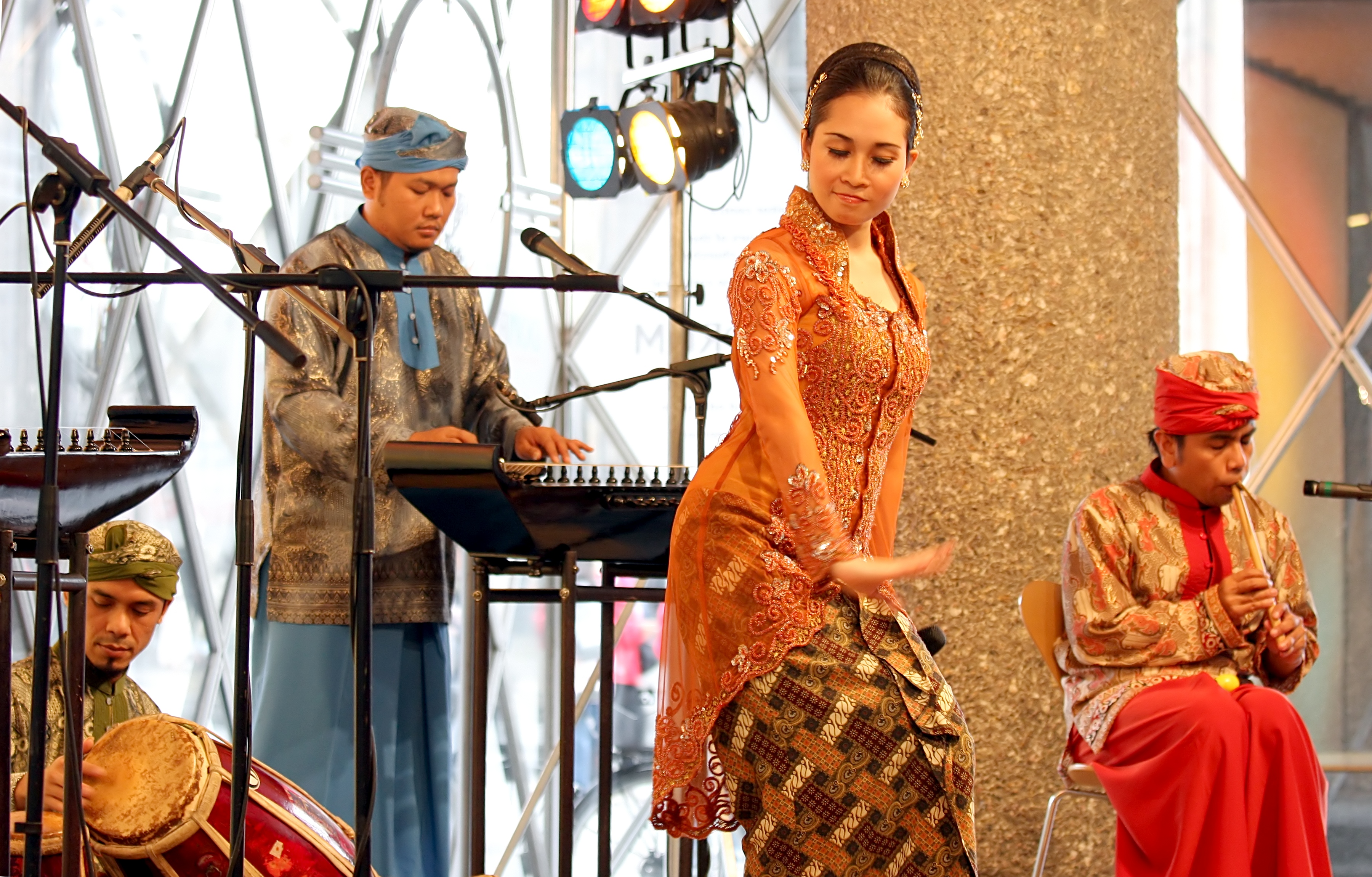 The SambaSunda quintett from Java, Indonesia, performs in Cologne